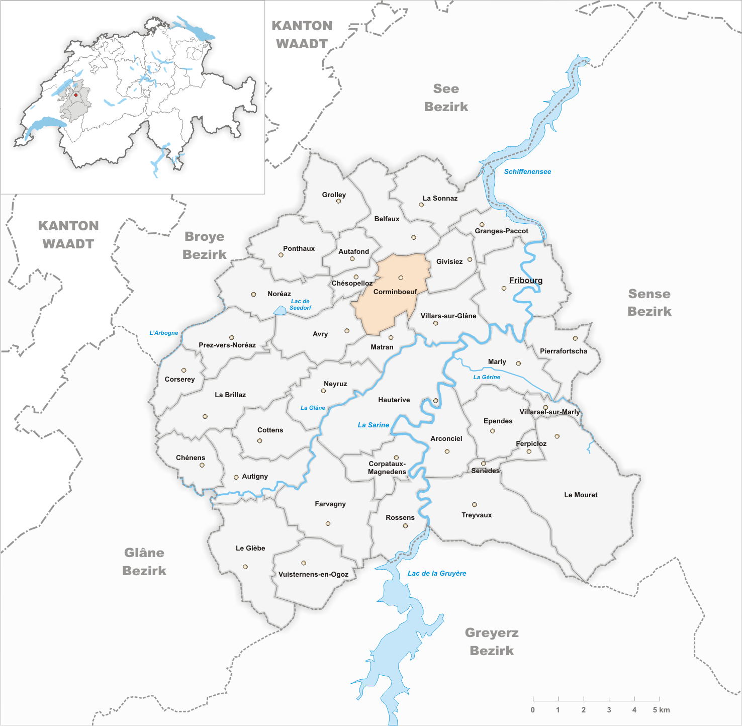 Municipality Corminboeuf